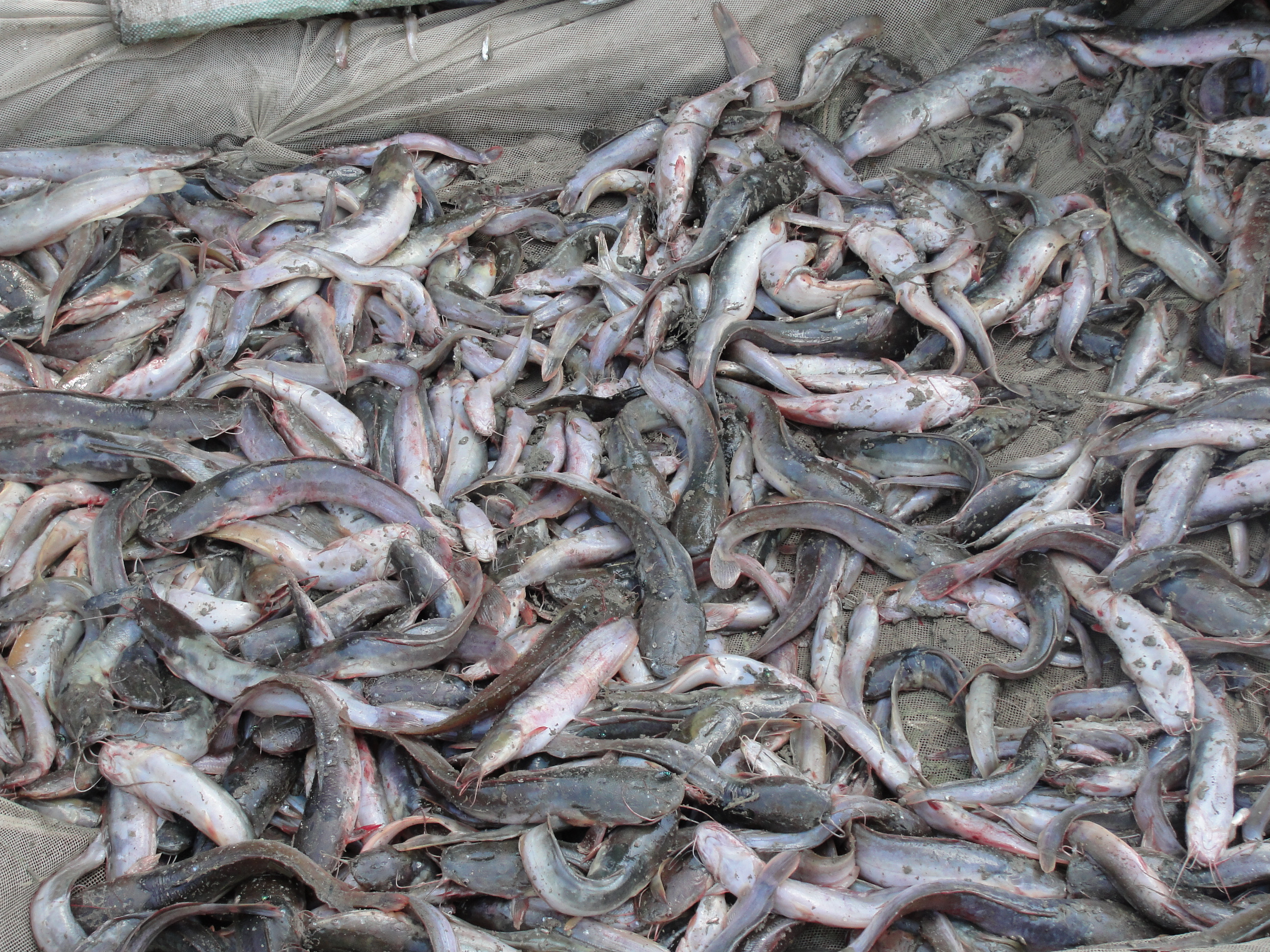 Catfish Catch, Luangwa Valley (Zambia)